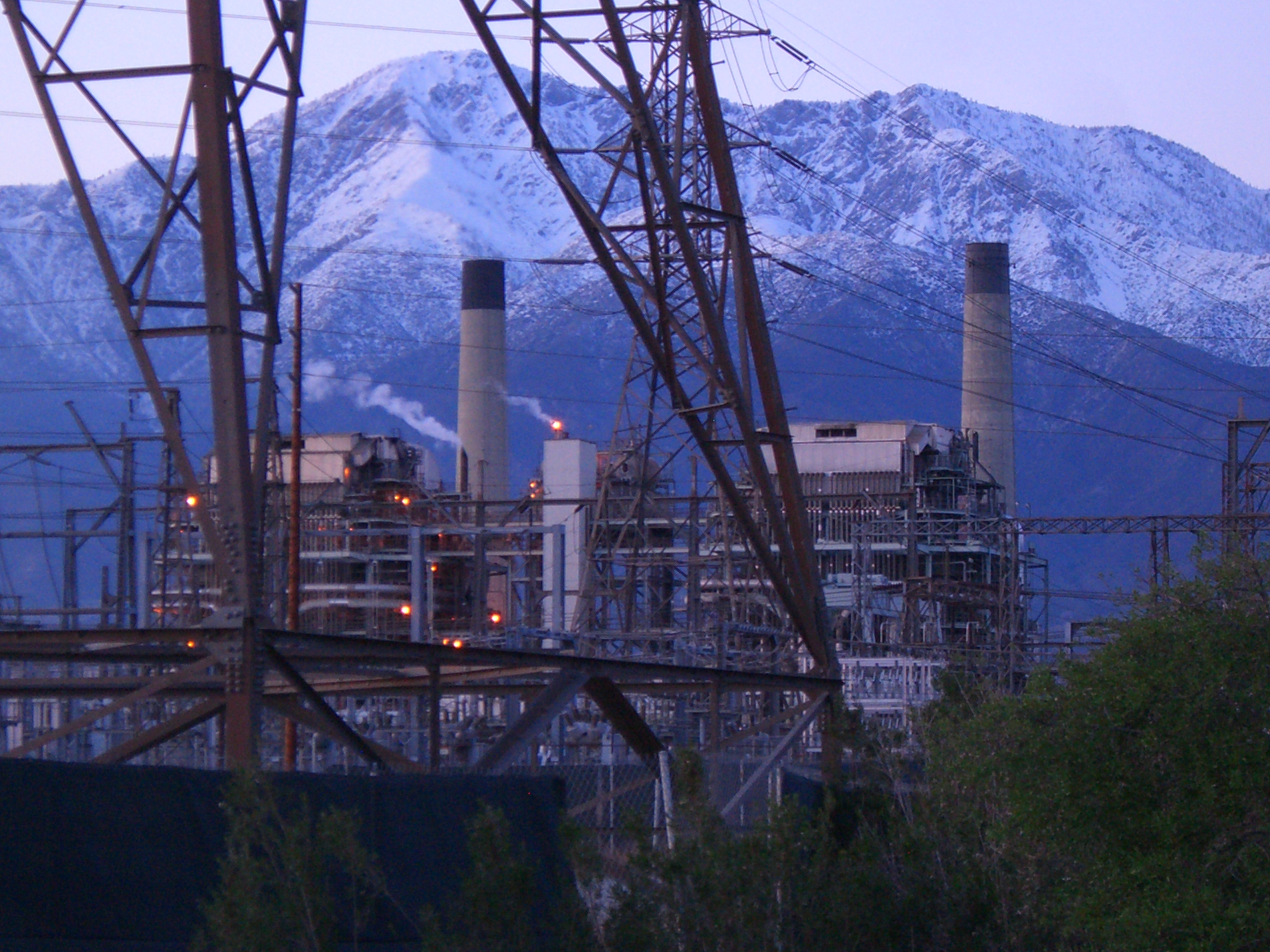 A power plant in Rancho Cucamonga.